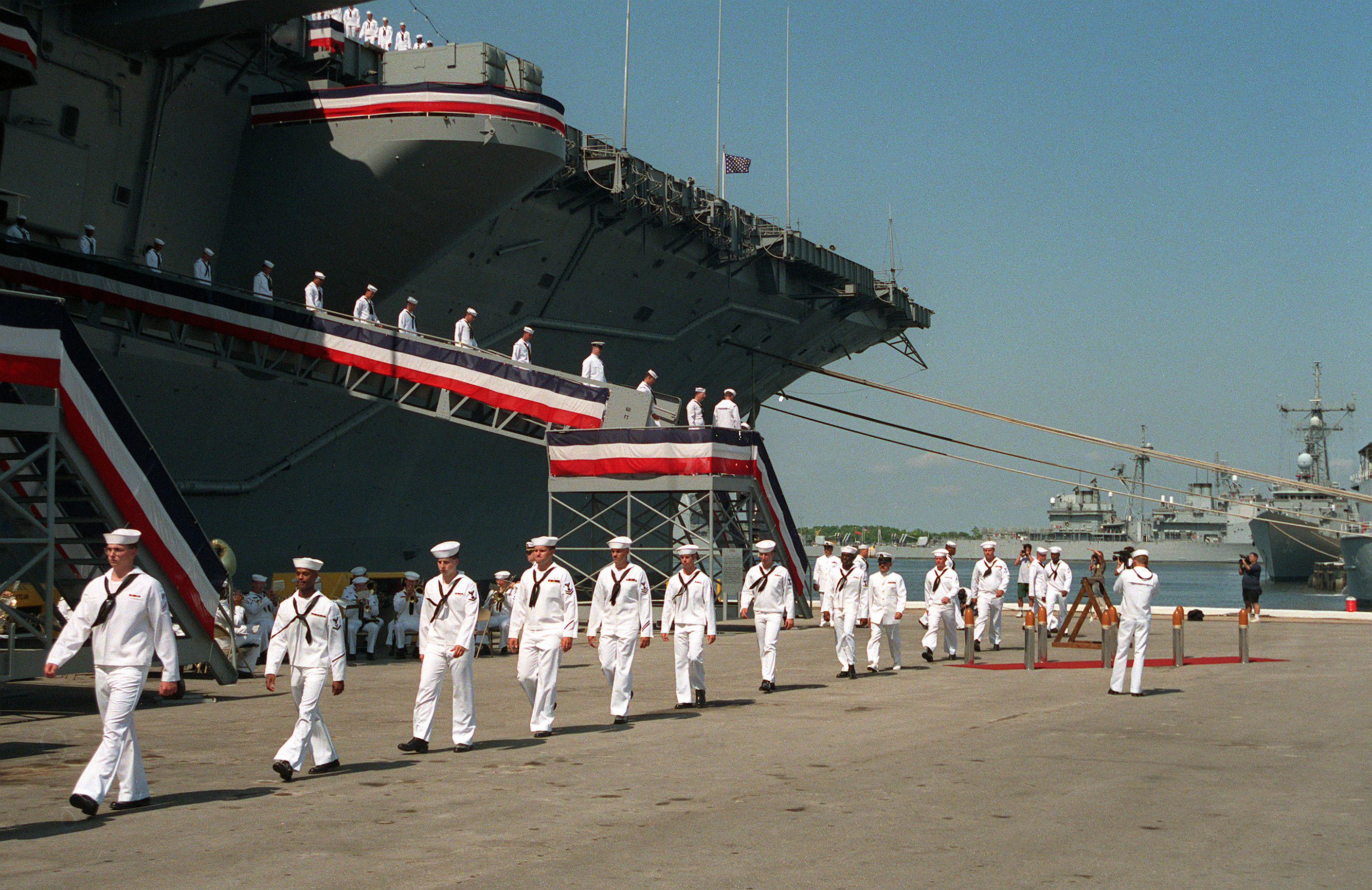 Ranks of enlisted crew members of the aircraft carrier USS SARATOGA (CV-60) file off the ship for the last time at the end of the decommissioning ceremony. The SARATOGA first commissioned at the old New York Naval Shipyard on 14 April 1956 at an attack aircraft carrier (CVA-60) of the Forrestal class. Location: NAVAL STATION, MAYPORT, FLORIDA (FL) UNITED STATES OF AMERICA (USA)